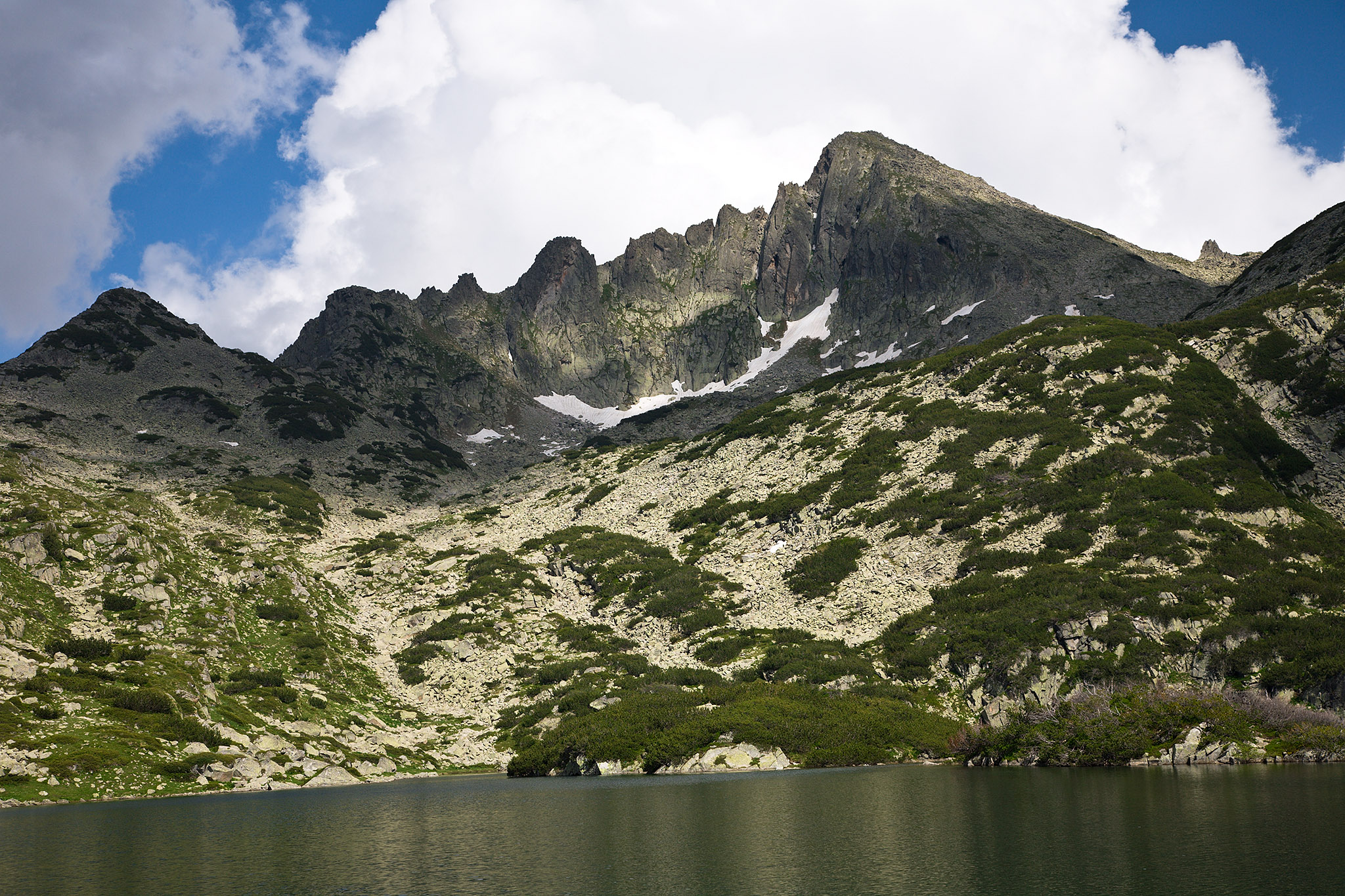 Dzangal summit in Northern Pirin mountain, SW Bulgaria